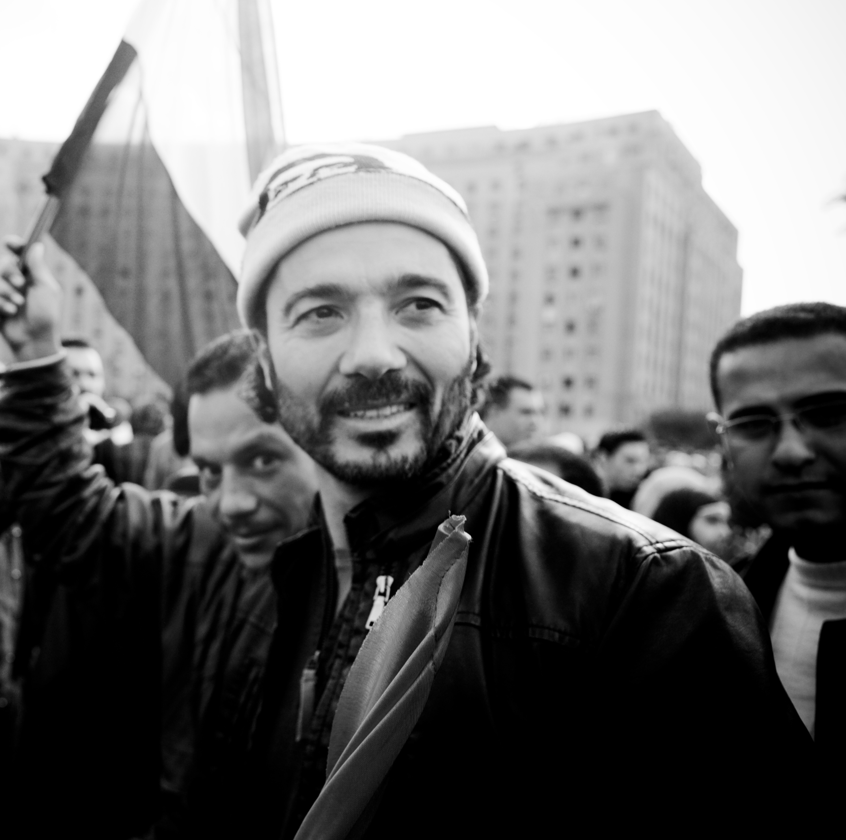 Actor Khaled Nabawy attends the Tahrir Square occupation, in support of the revolution...